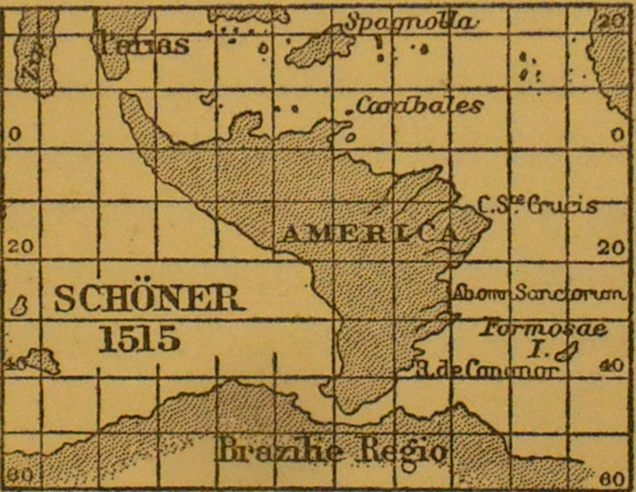 Schöner’s 1515 map of America re-drawn on a quadratic projection and on the same uniform scale as that of Waldseemüller of 1507, so as to be readily comparable (E.G. Ravenstein, Martin Behaim: His Life and His Globe, London, George Philip & Son, 1908, p.36).